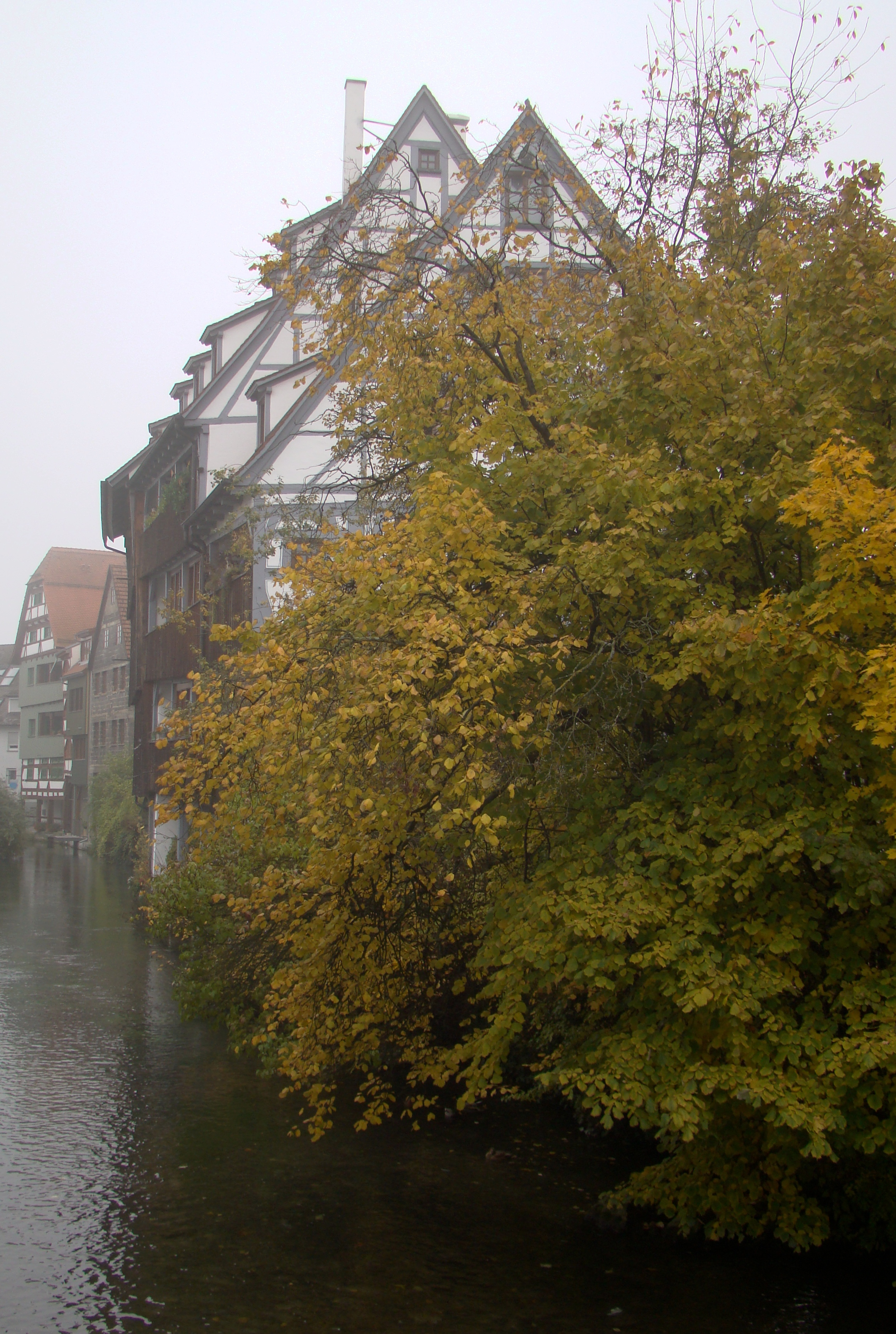 Ulm, an autumn morning at the river Blau